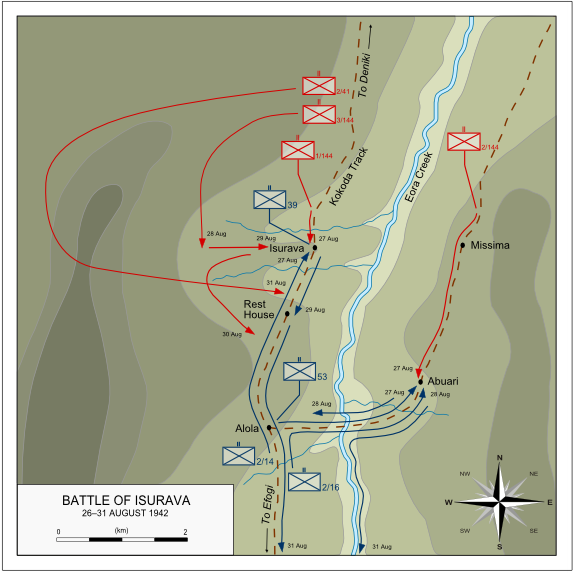 Map illustrating the Battle of Isurava, which took place 26–31 August 1942.